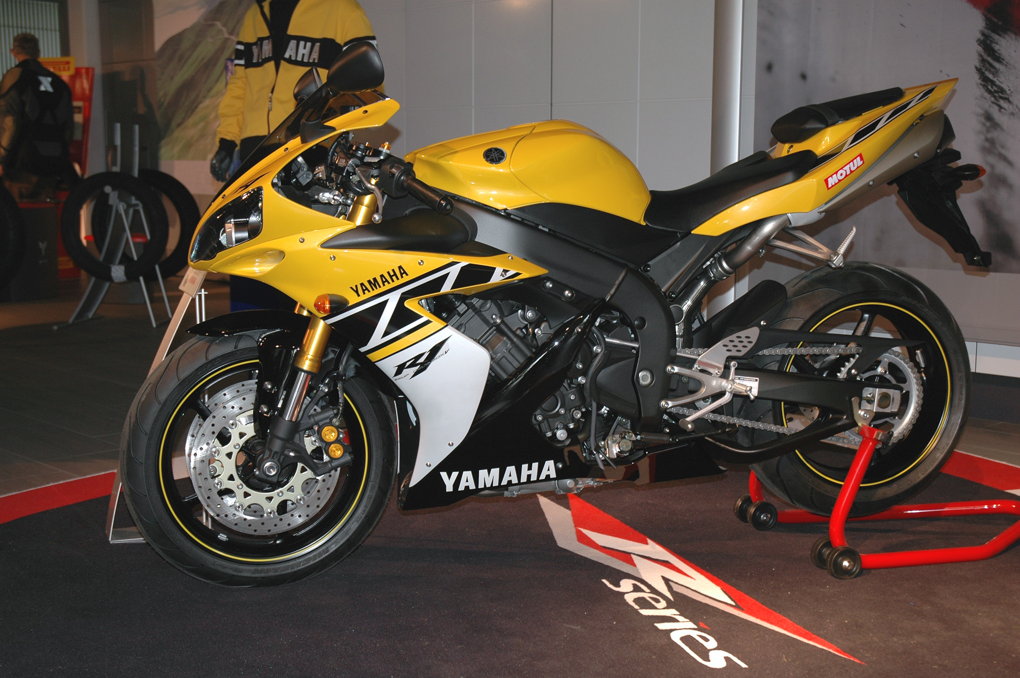 Yamaha YZF - R1 Model 2006 - Yamaha 50th anniversary edition (colours of Kenny Roberts) Source: self-made Photographer: P. Stalder (English user page) / P. Stalder (deutsche Benutzerseite) Location: Switzerland